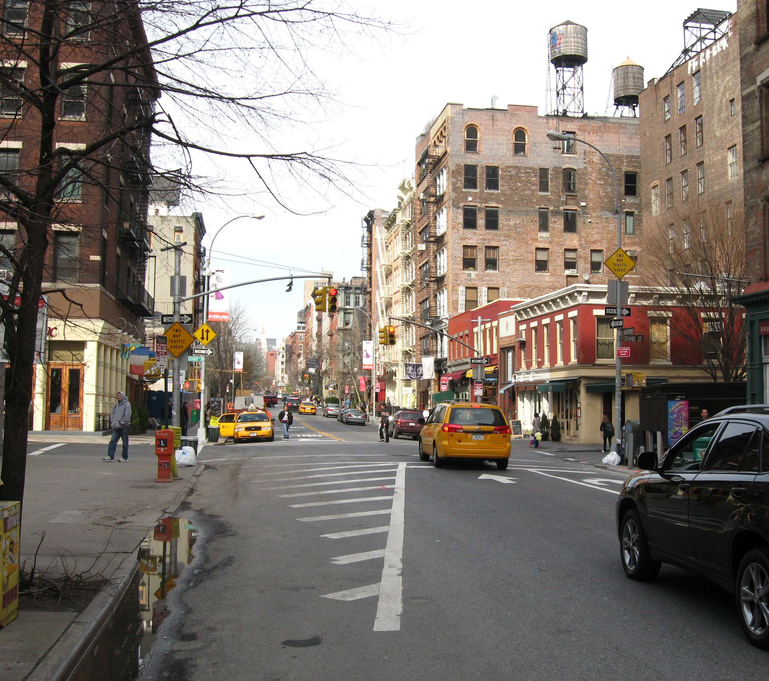 Looking north along West Broadway past Grand Street where it changes from northound to two way.